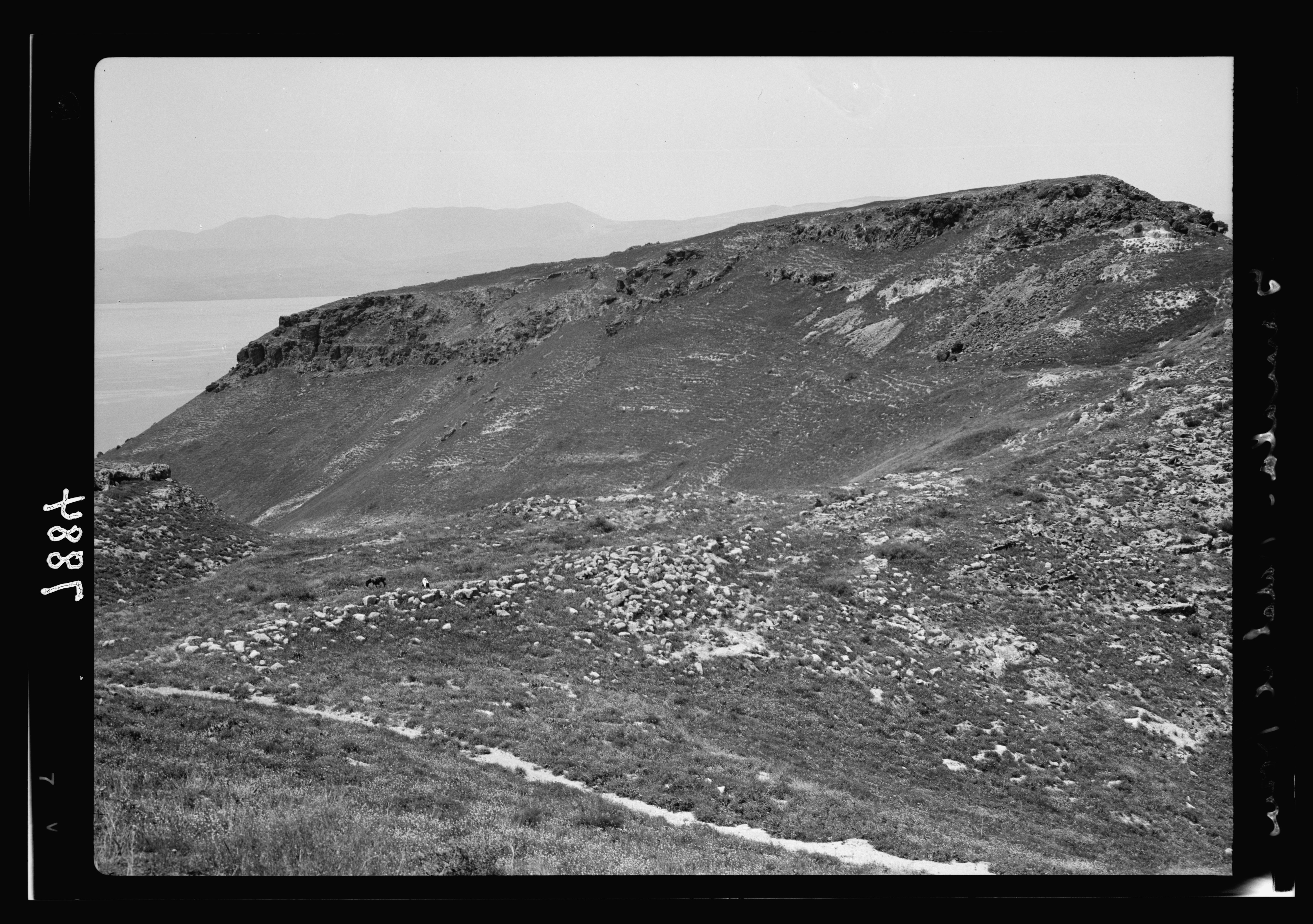 Title: Gamala (Kal'at el-Huson east of the Sea of Galilee). Gamala from S.E. Sea of Galilee in background Abstract/medium: G. Eric and Edith Matson Photograph Collection Physical description: 1 negative